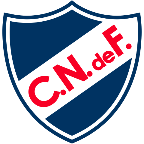 Uruguay's Club Nacional de Football logo